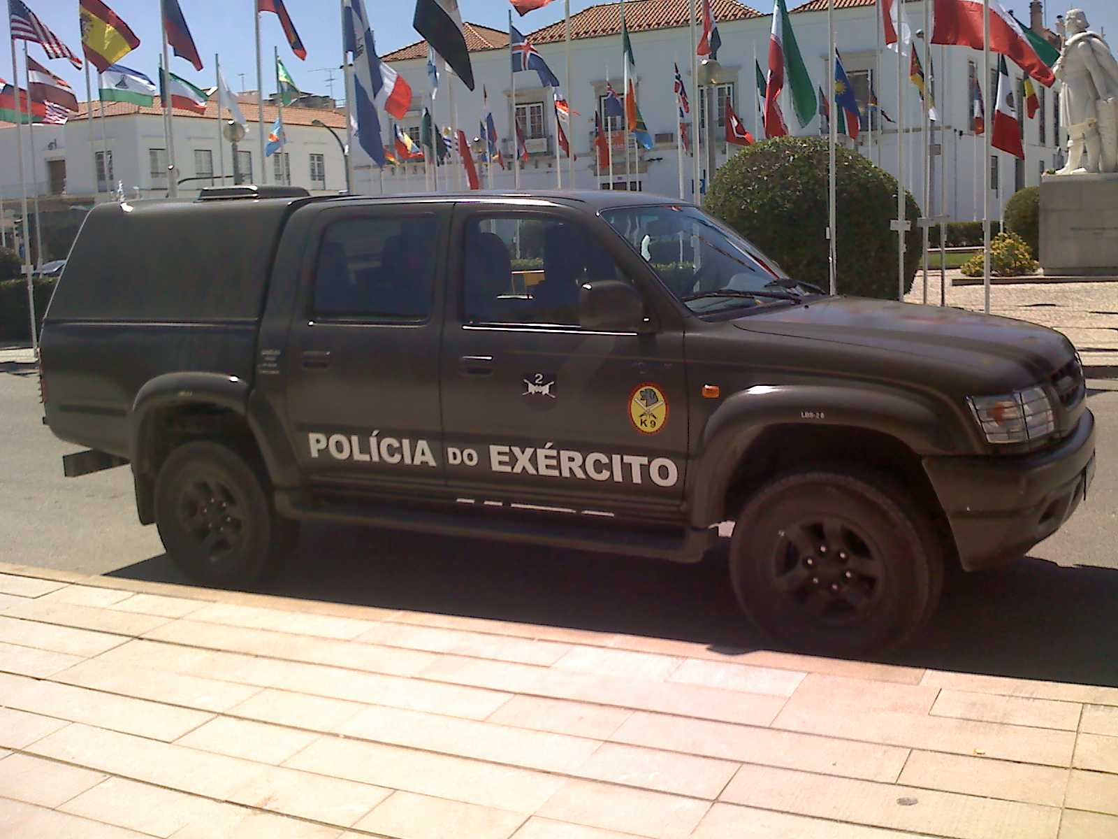 Portuguese Army Police K9 teams vehicle.